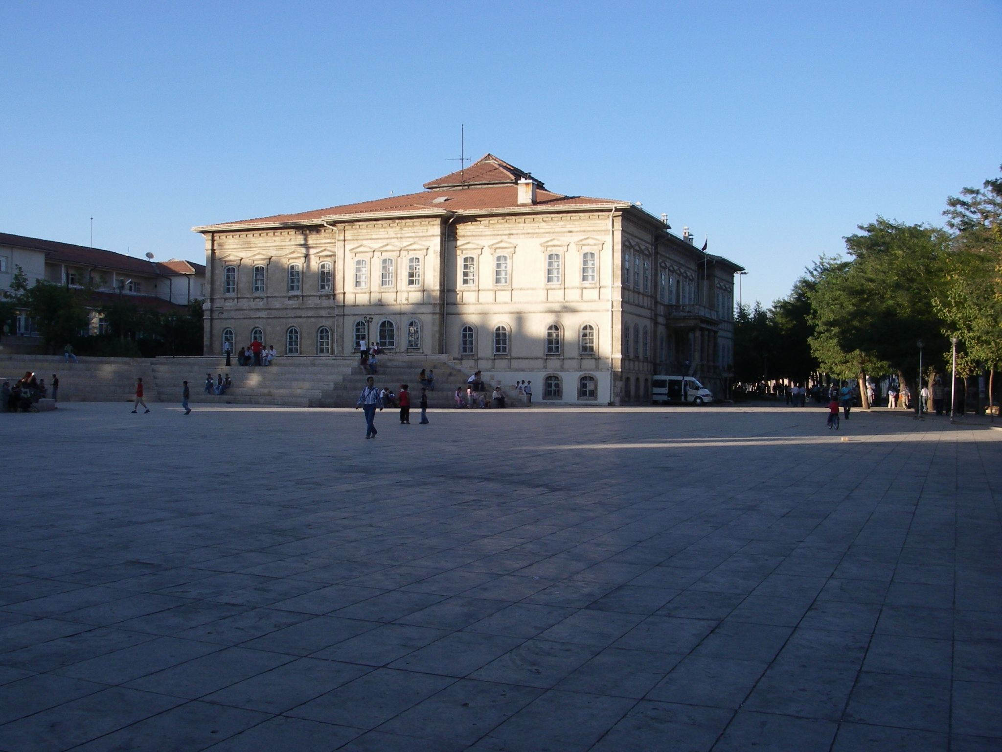 The school where the Sivas Congress was hold.